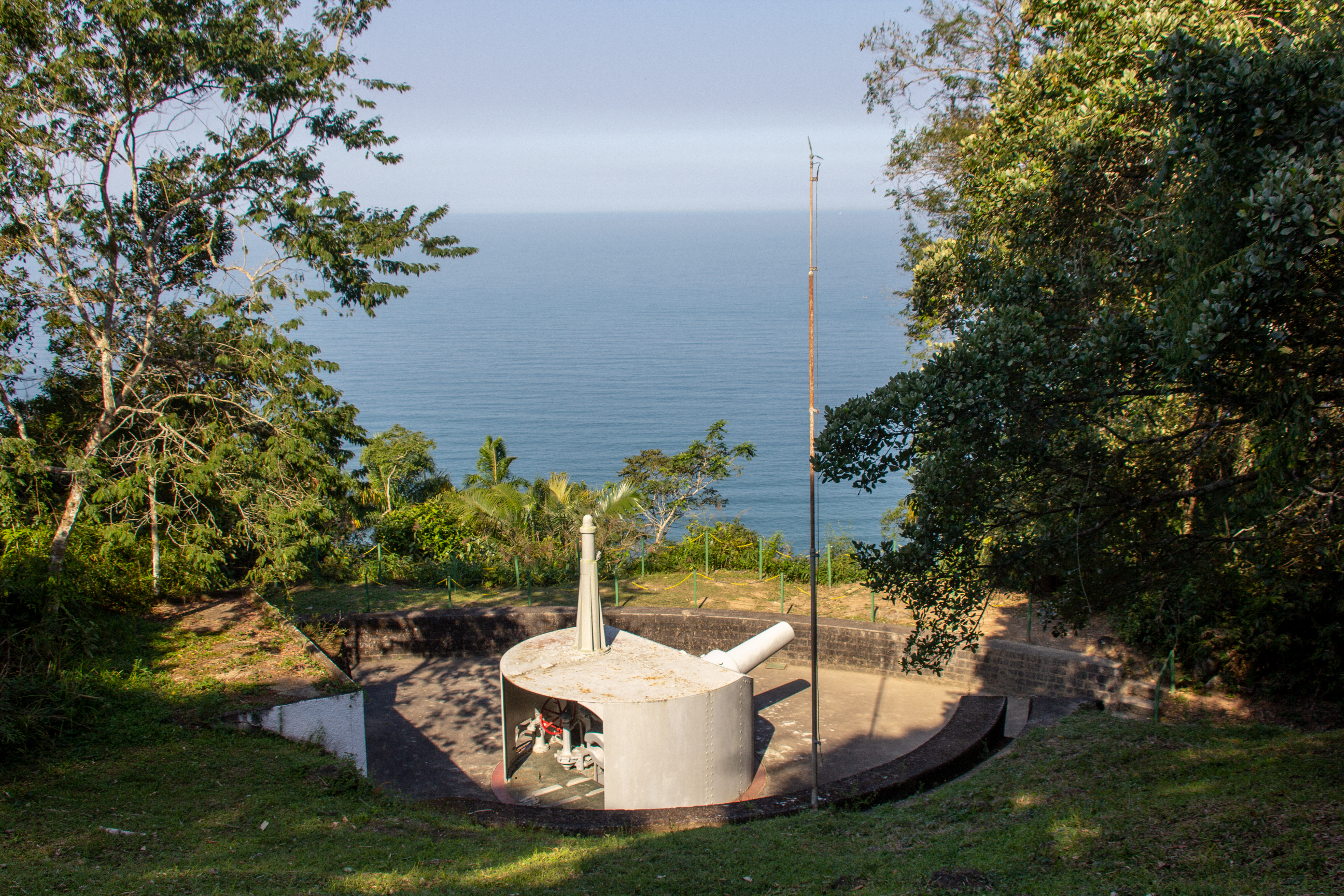 Forte dos Andradas, Brazil